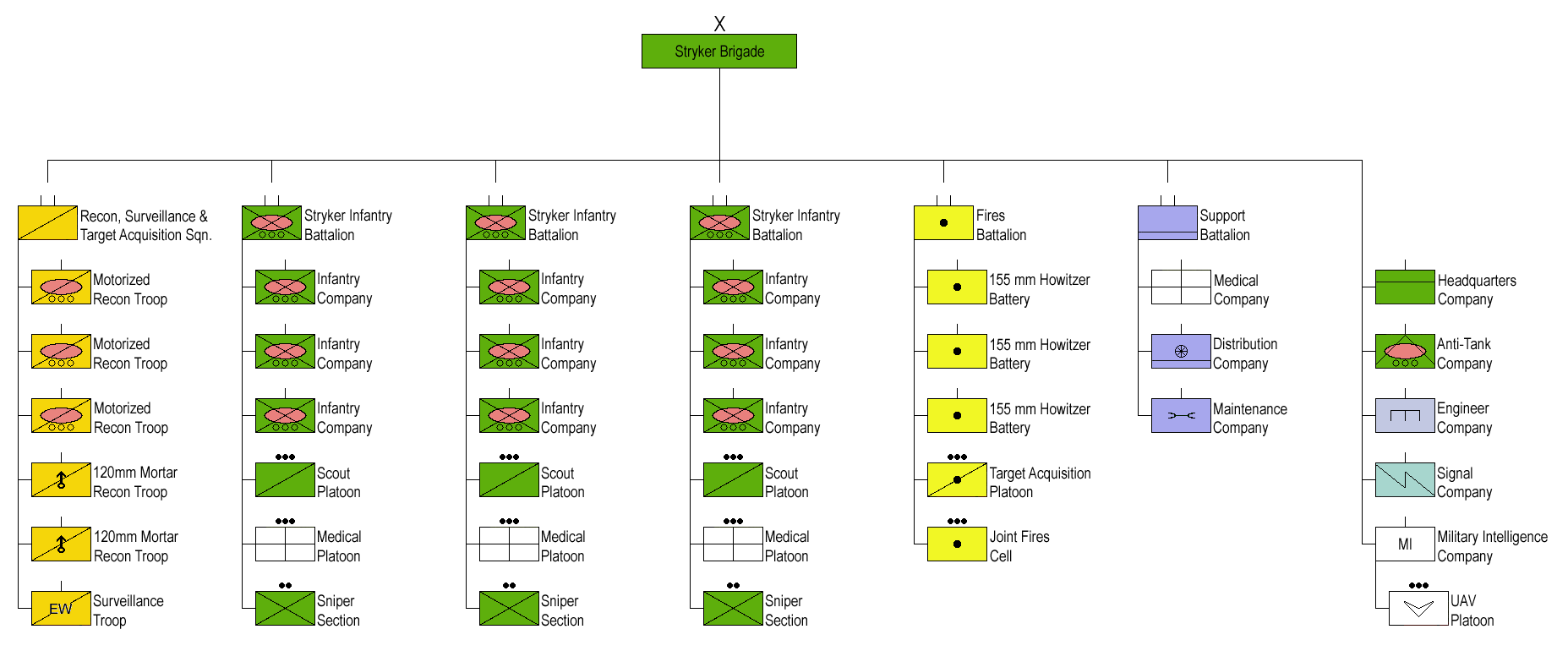 Stryker Brigade Structure Transformation of the United States Army